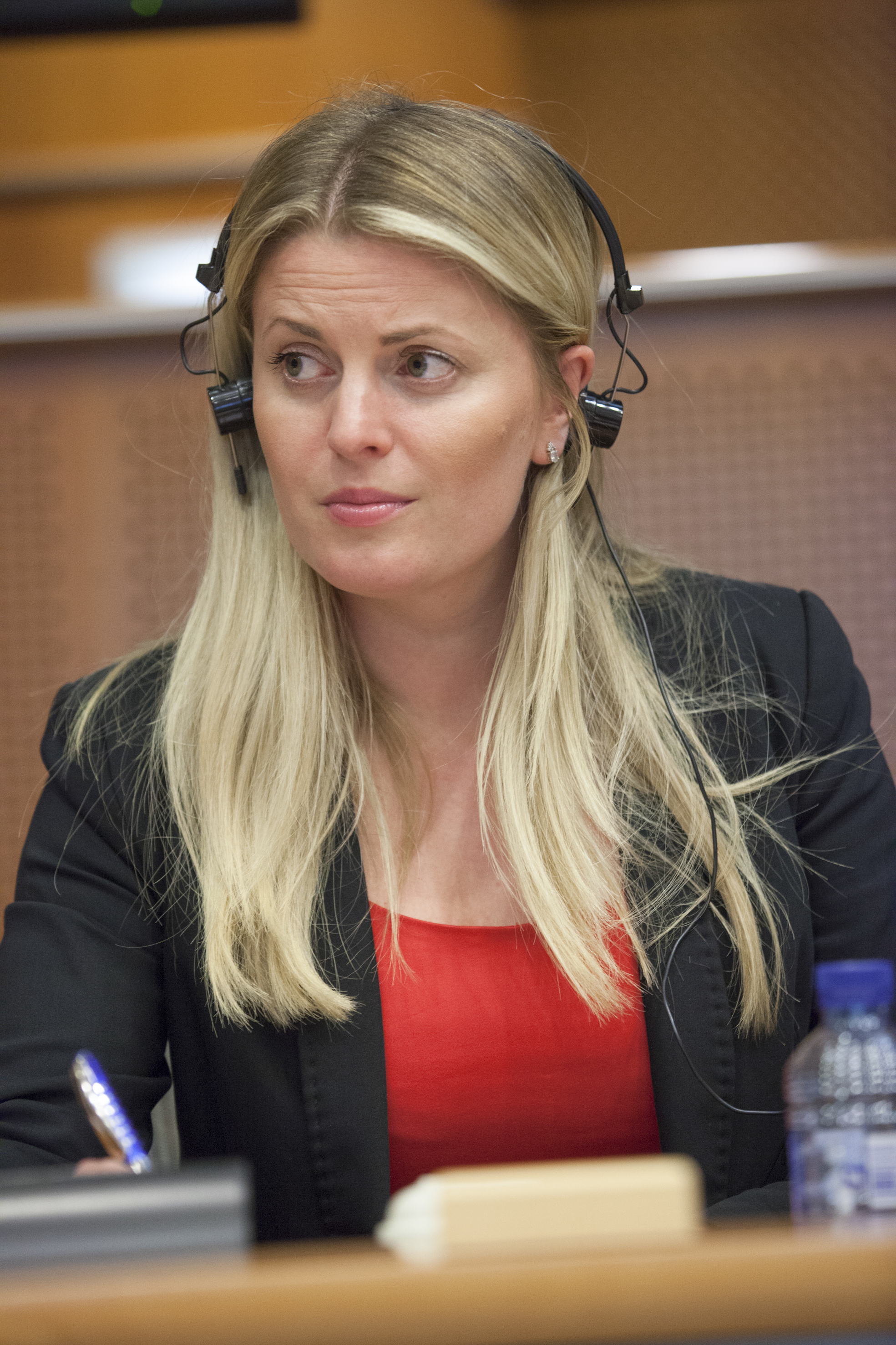 EPRUI meeting "This photo is copyright free, but must be credited: "© European Union 2012 - European Parliament"